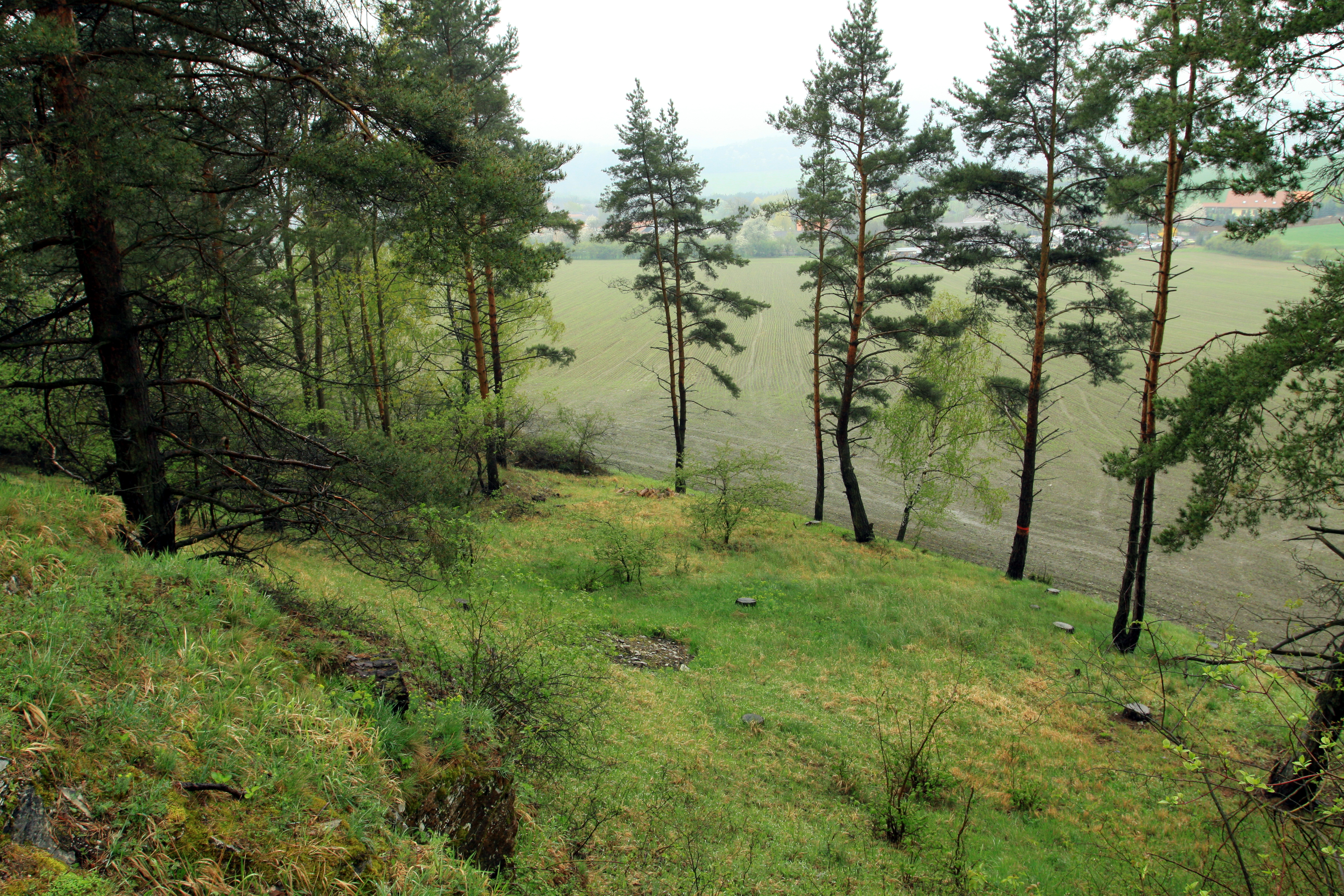 Natural monument Štola Jarnice in spring 2013 near Týnčany village, Příbram District, Czech Republic - Google Maps - Google Earth